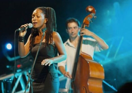 Amana headlining a festival in Italy